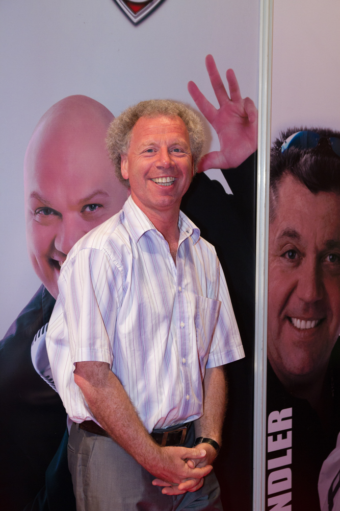 DJ der guten Laune (Mallorca 2011)